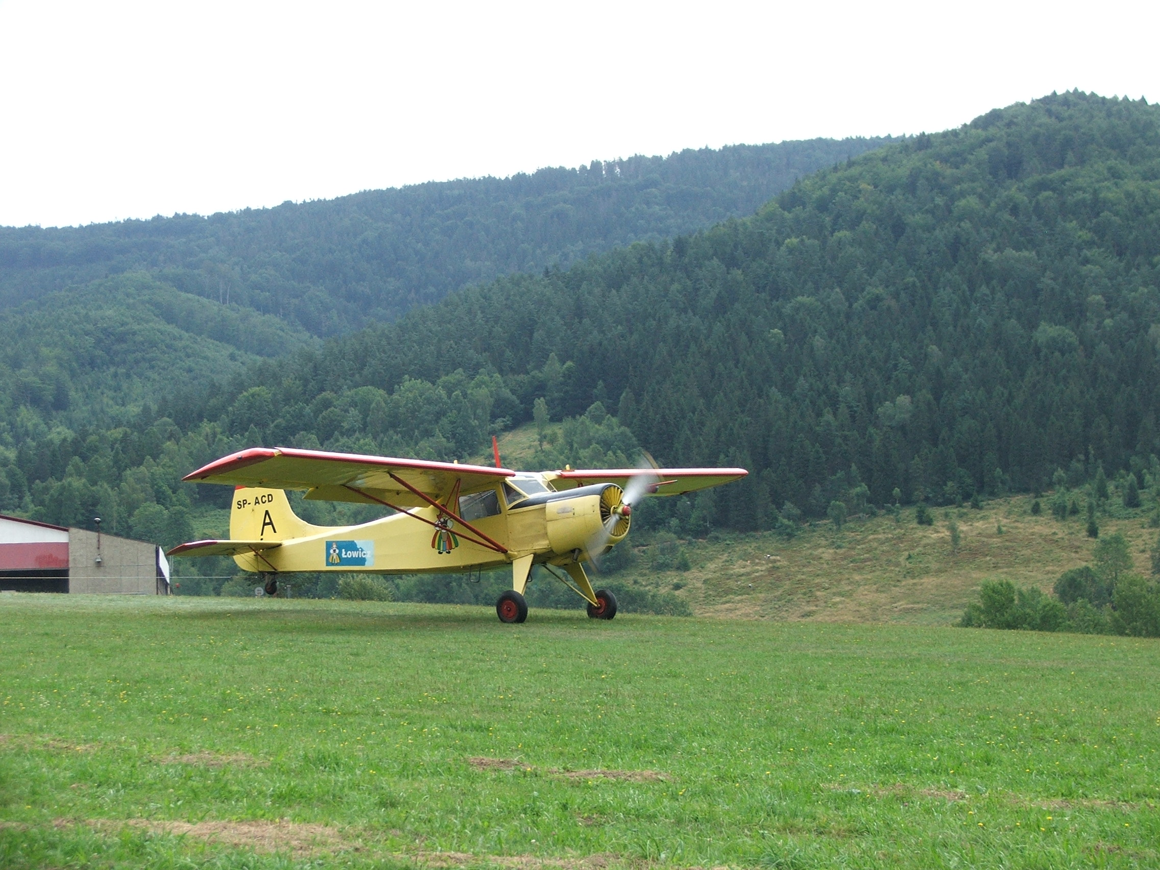 Polish Yakovlev Yak-12M (SP-ACD, no 200991) at Międzybrodzie Żywieckie